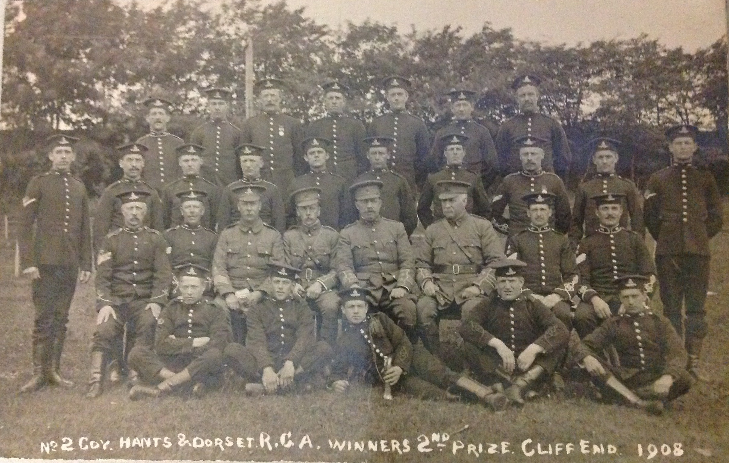 Number 2 Company, Hampshire and Dorset Royal Garrison Artillery (TF), Cliff End Battery, Isle of Wight, 1908